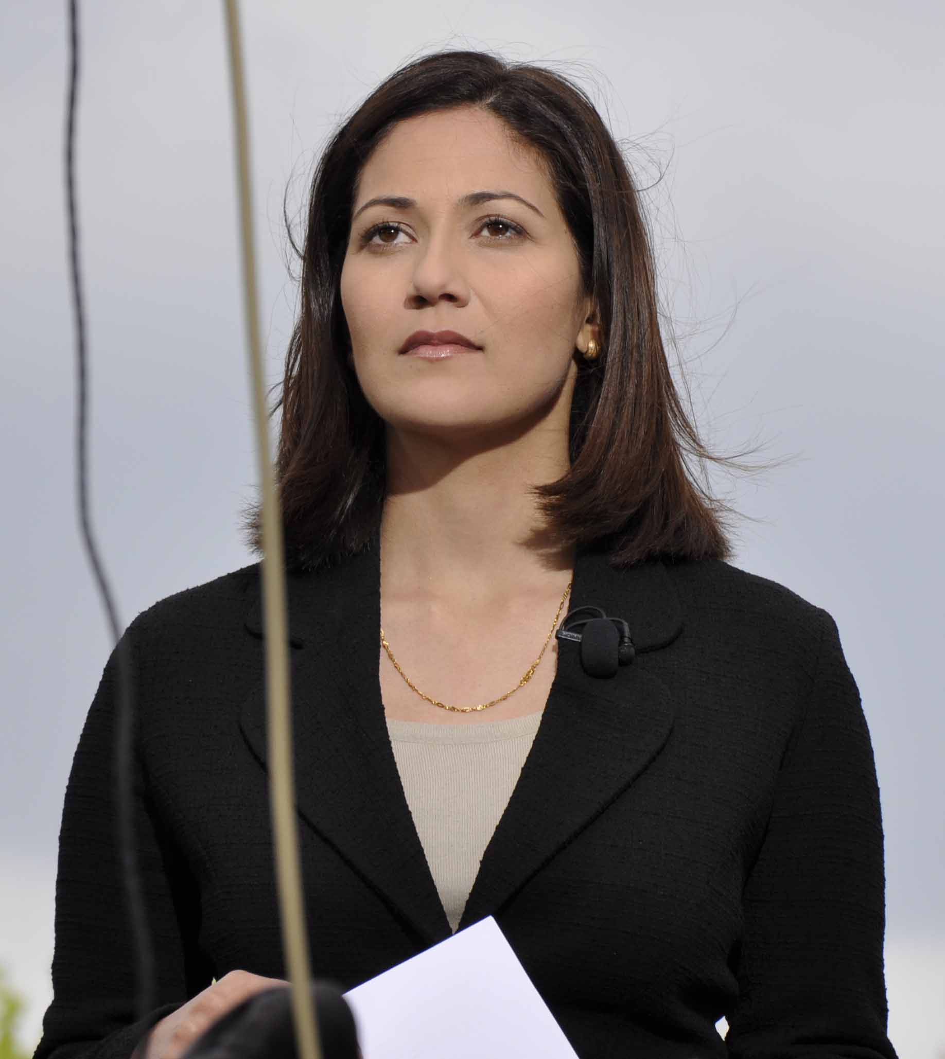 Mishal Husain; reporter for the BBC. Taken at College Green, Westminster following the 2010 UK General Election.